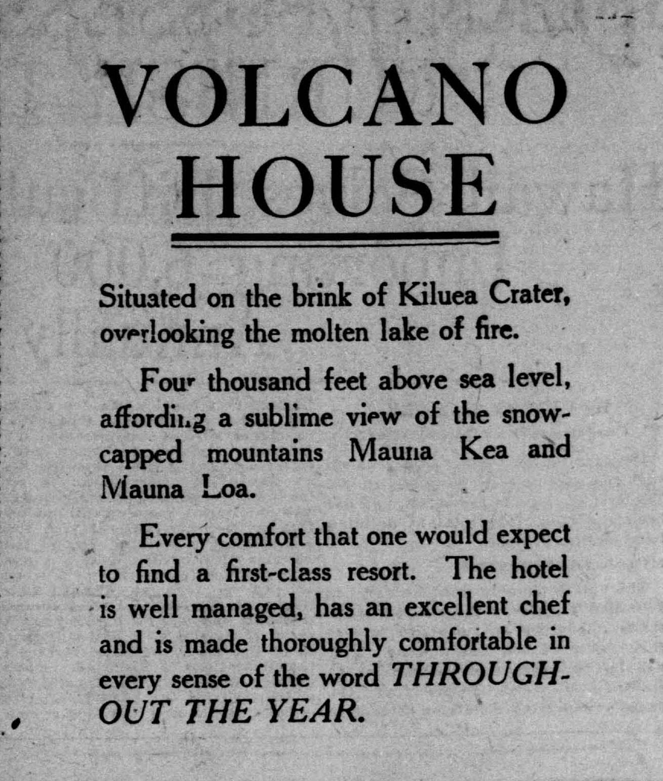 Text: "Volcano House Situated on the brink of Kilauea Crater, overlooking the molten lake of fire. Four thousand feet above sea level, affording a sublime view of the snow-capped mountains Mauna Kea and Mauna Loa. Every comfort that one would expect to find a first-class resort. The hotel is well managed, has an excellent chef and is made thoroughly comfortable in every sense of the word THROUGHOUT THE YEAR." The San Francisco Call, August 14, 1912, Page 14, Image 14 From the University of Hawaii at Manoa Library